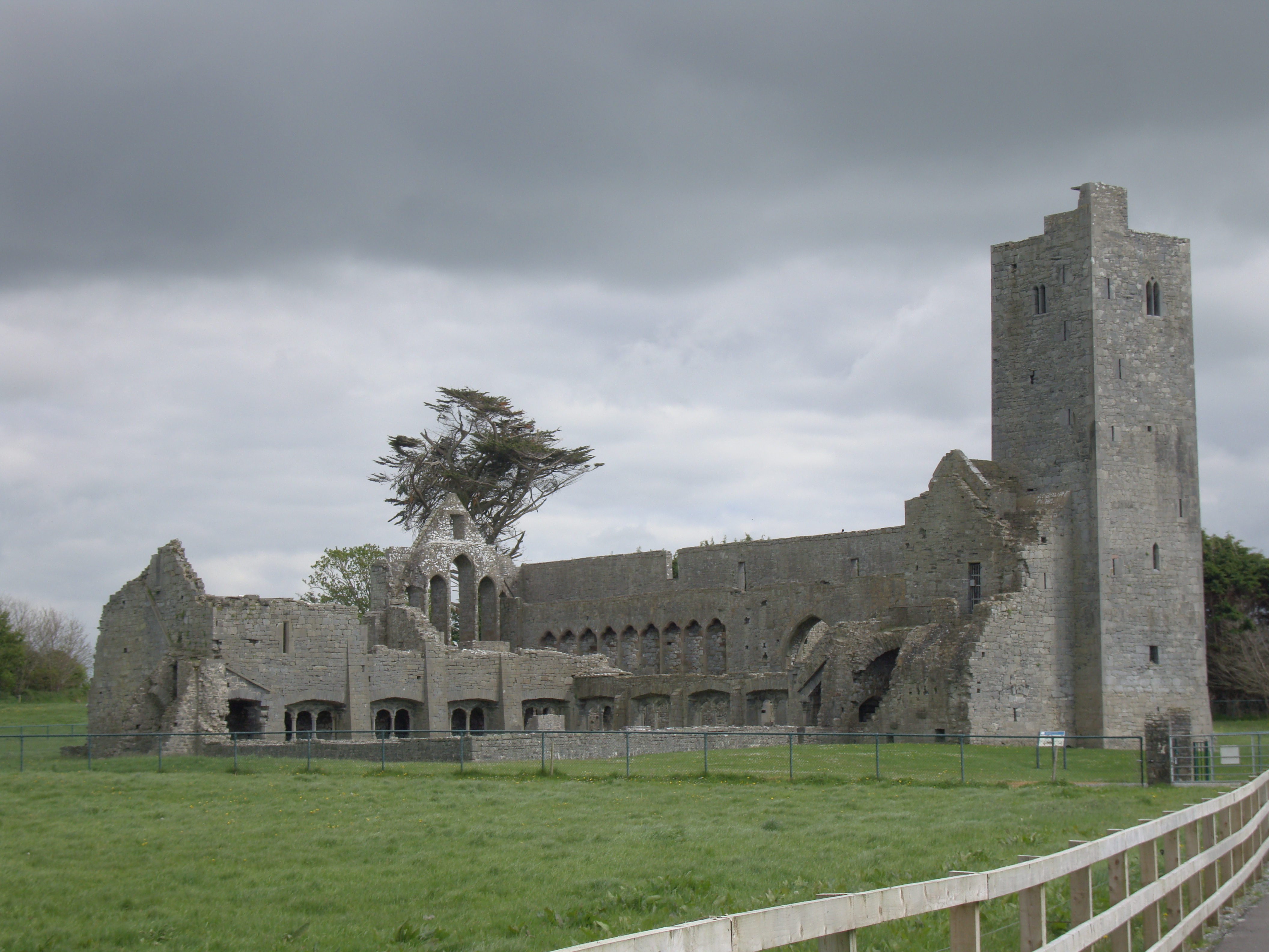 Photograph of the remains of Ardfert Friary, Co. Kerry, Ireland